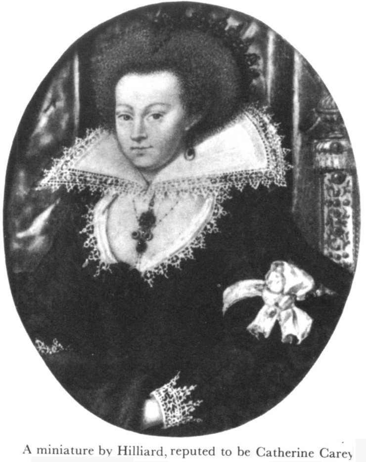 A miniature by Hilliard, reputed to be Catherine Carey